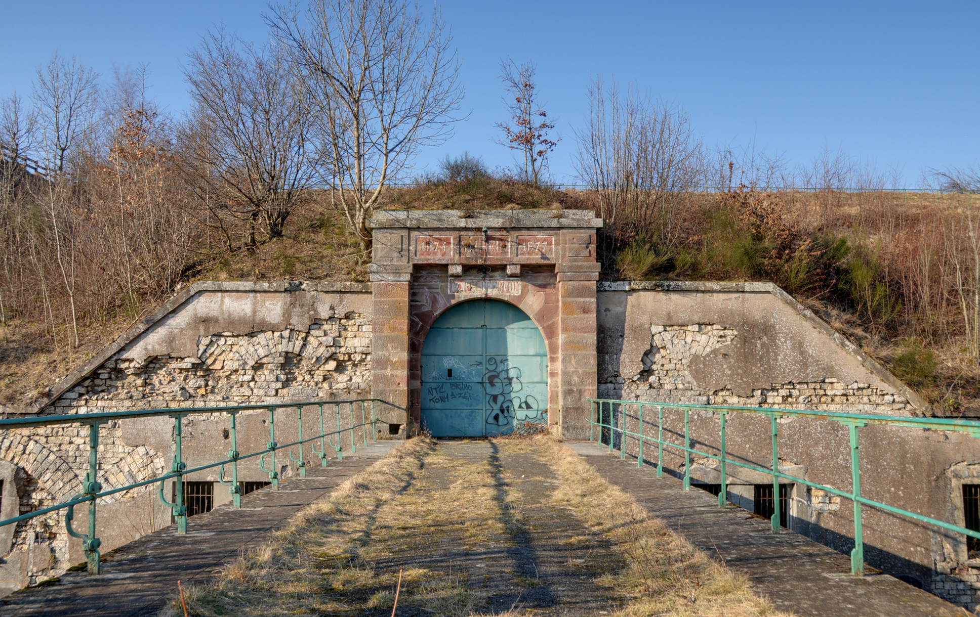 Entry of the fortifications of the Salbert hill (HDR).